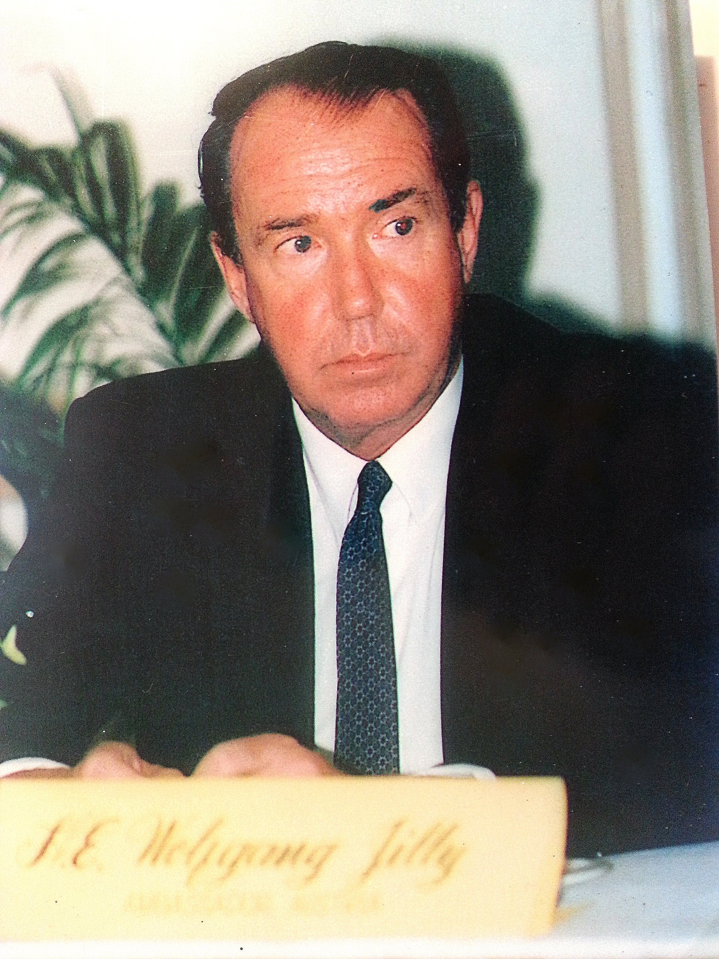 His Excellency Dr. Wolfgang Jilly, Ambassador of Austria